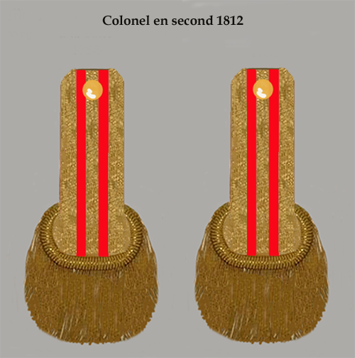 Template:Dfr